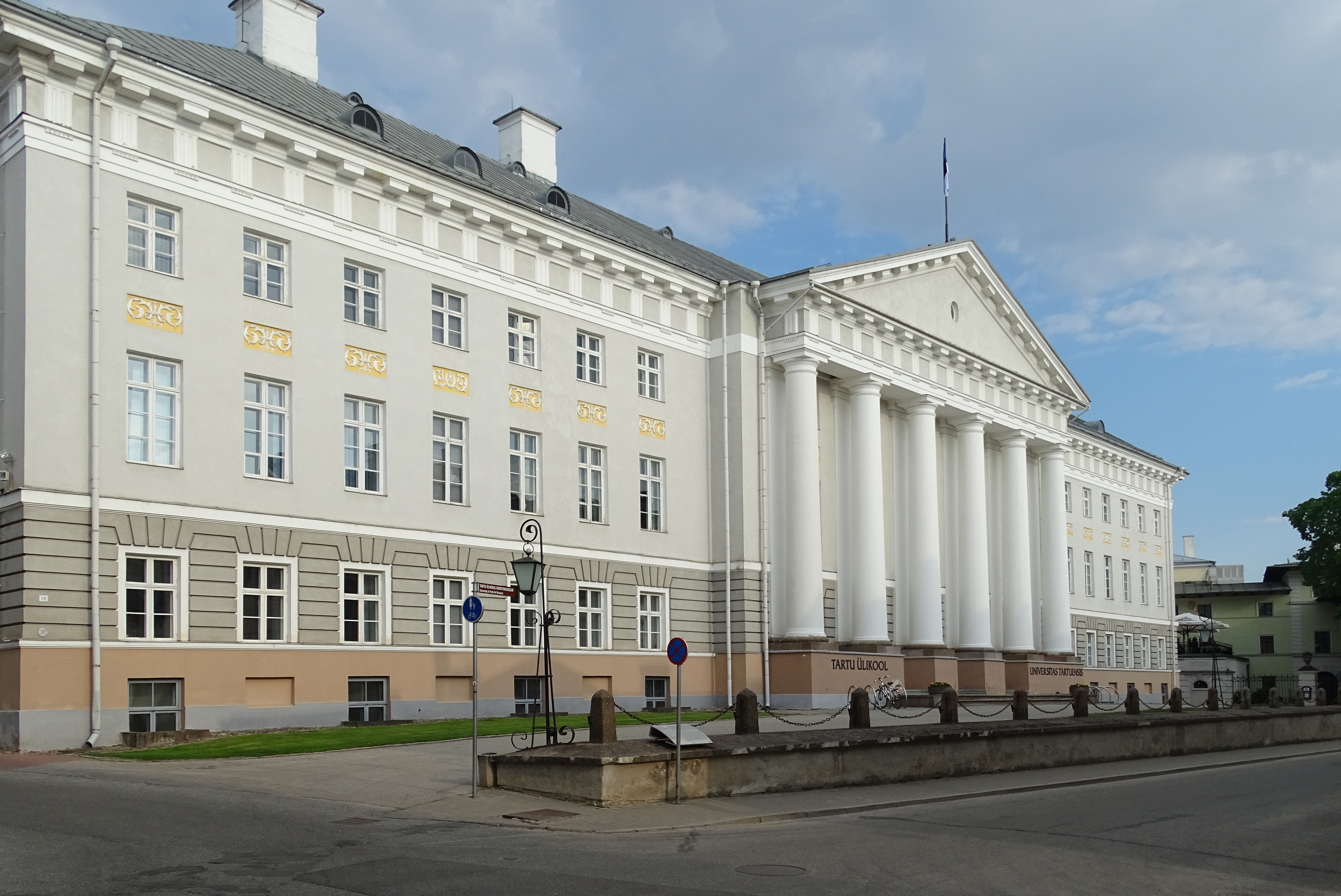 The main building of Tartü University, Estonia